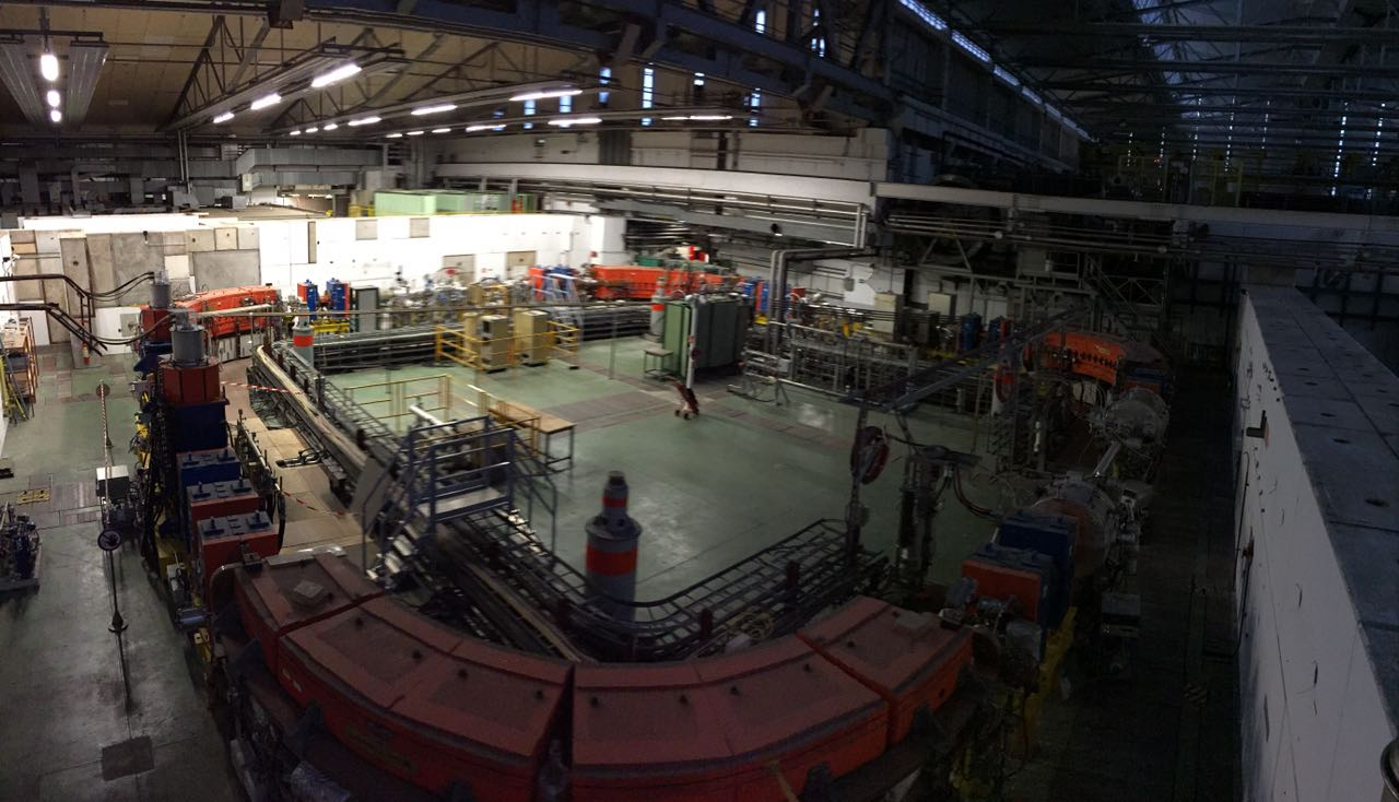 טבעת היונים באנרגיה נמוכה הנמצאת במרכז הגדול בעולם לחקר החלקיקים, CERN.